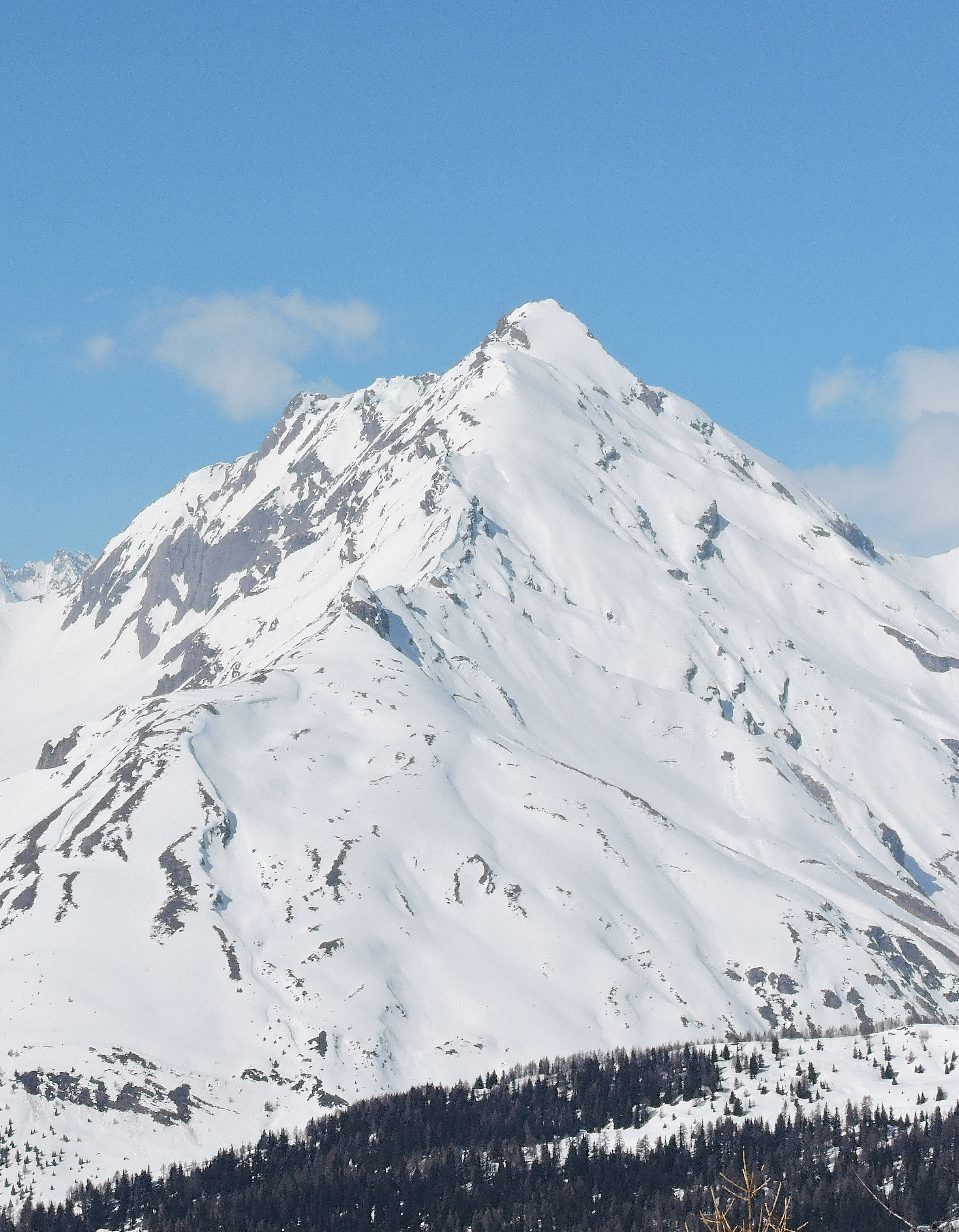 Grande Rochère as seen from Court de Bard (Penine Alps, Aosta Valley, IT)